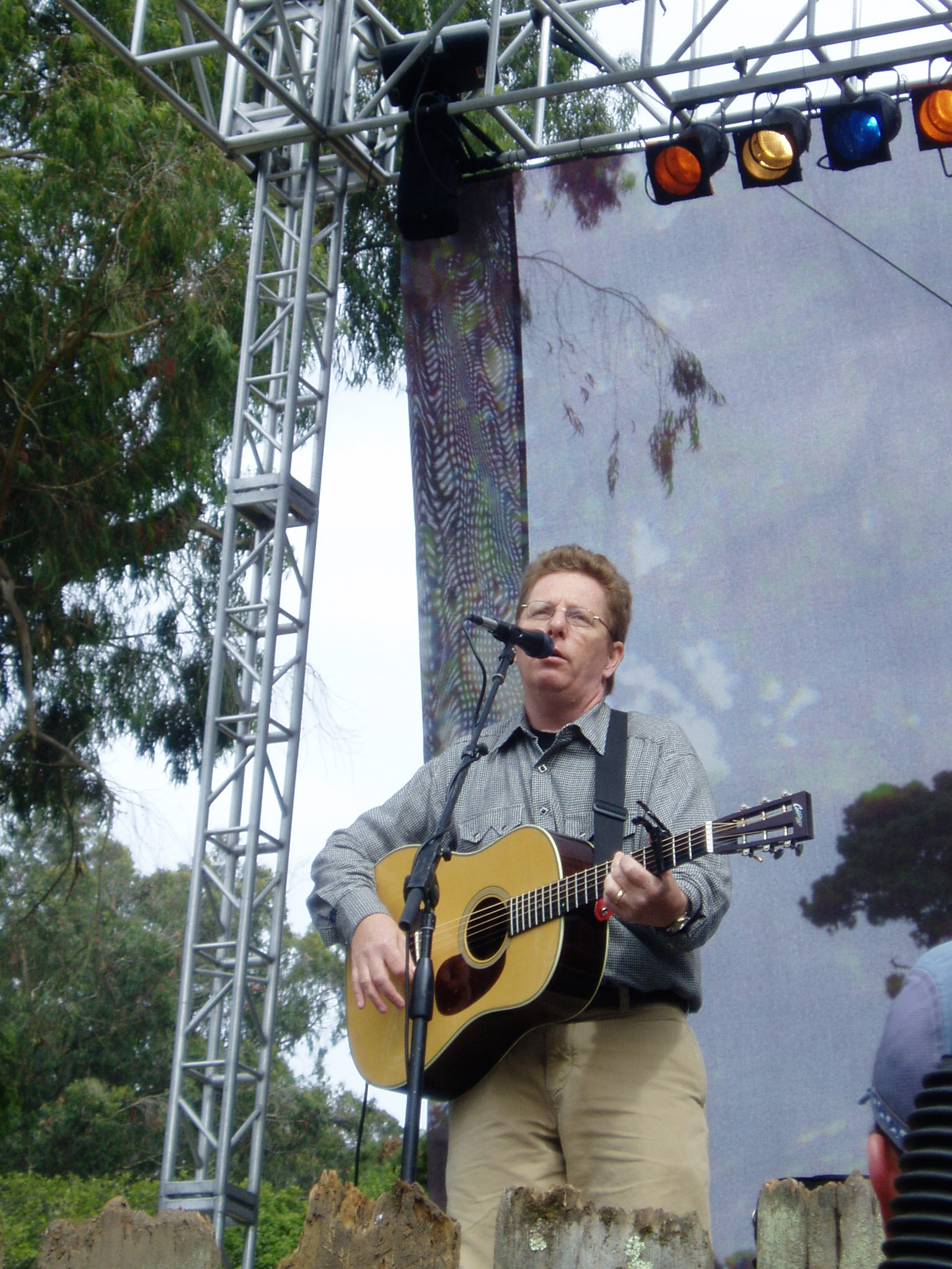 Tim O'Brien appearing at RockyGrass-2006 Lyons, Colorado July 30, 2006.